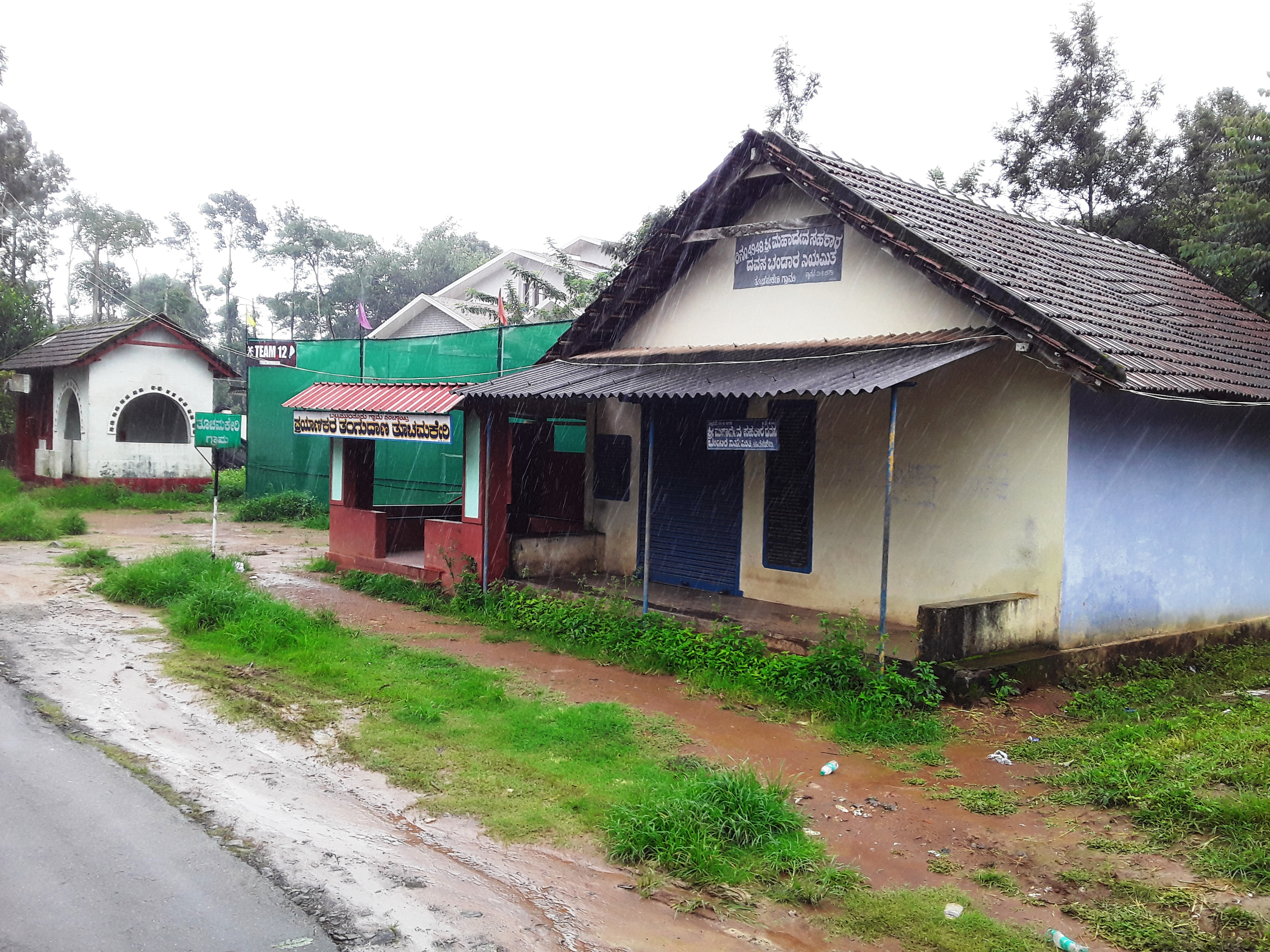 Kodagu district, Karnataka state, India.